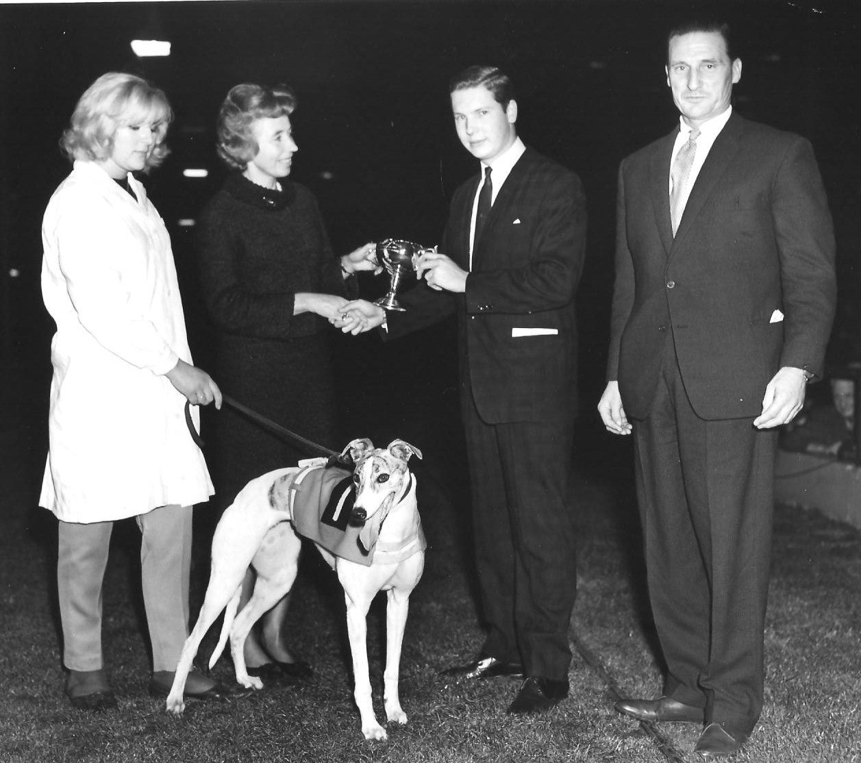 1962 Puppy Derby final Mrs Cearns presenting